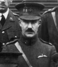 Patrick Playfair (later Air Marshal Sir Patrick Playfair) in the Royal Flying Corps during World War I. Possibly in a major's uniform. Cropped from source below.